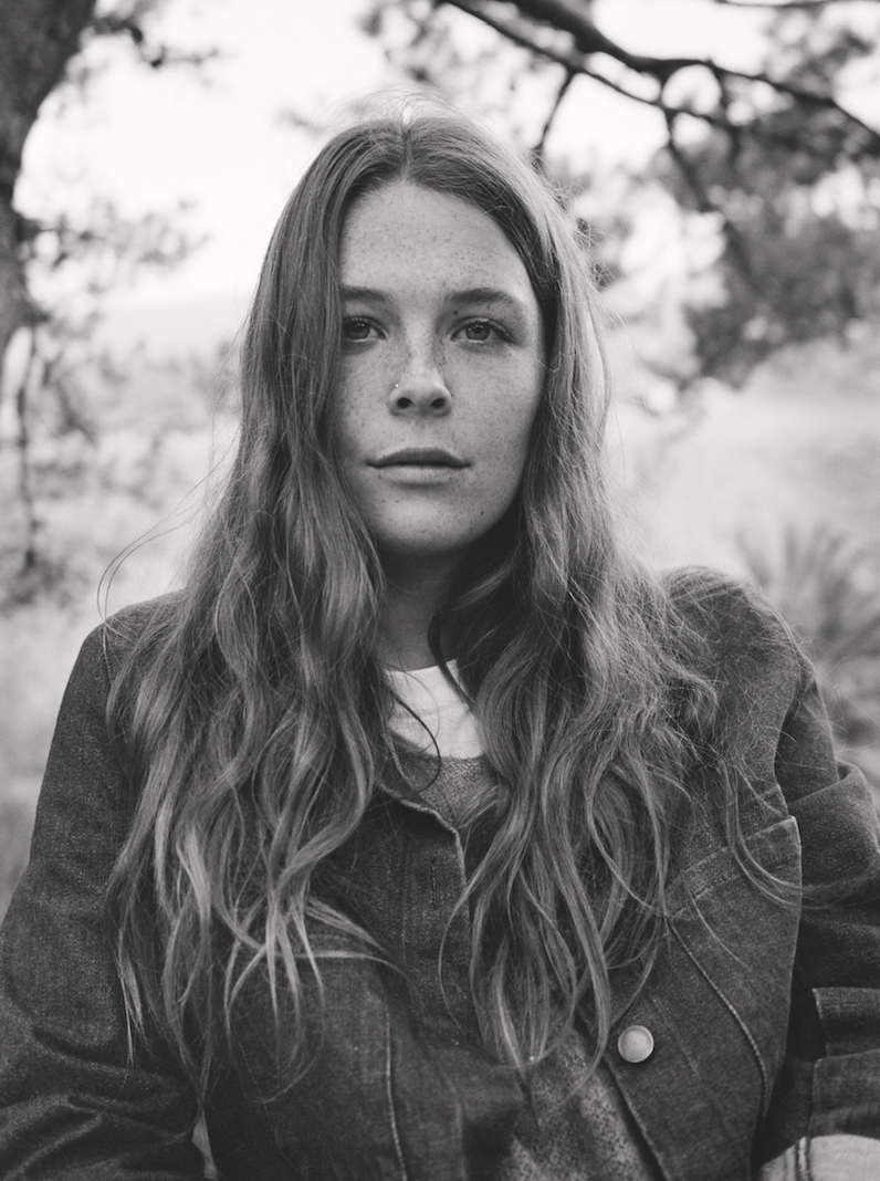 Press image of Rogers